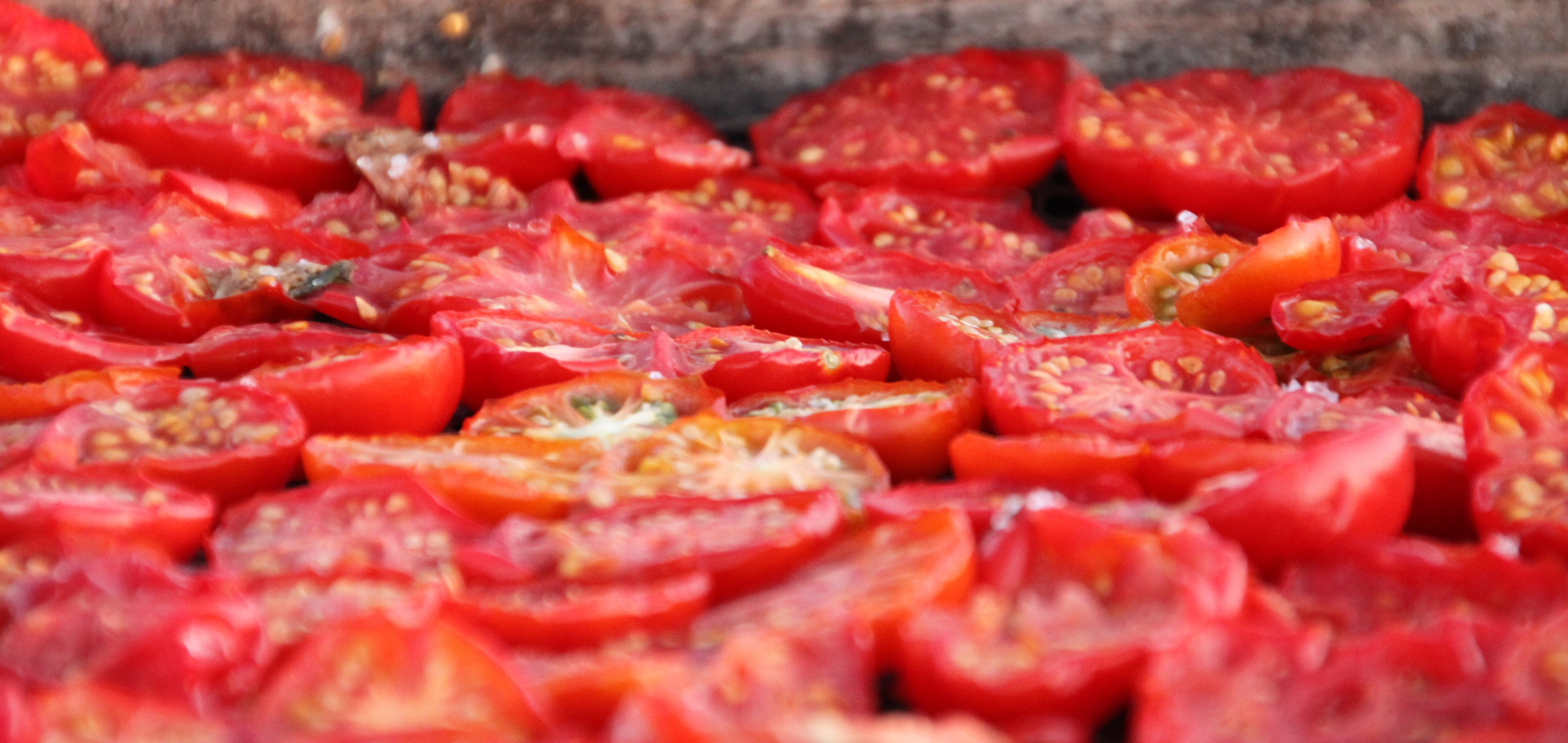 Sun-dried tomatoes at Akrotiri of Santorini...